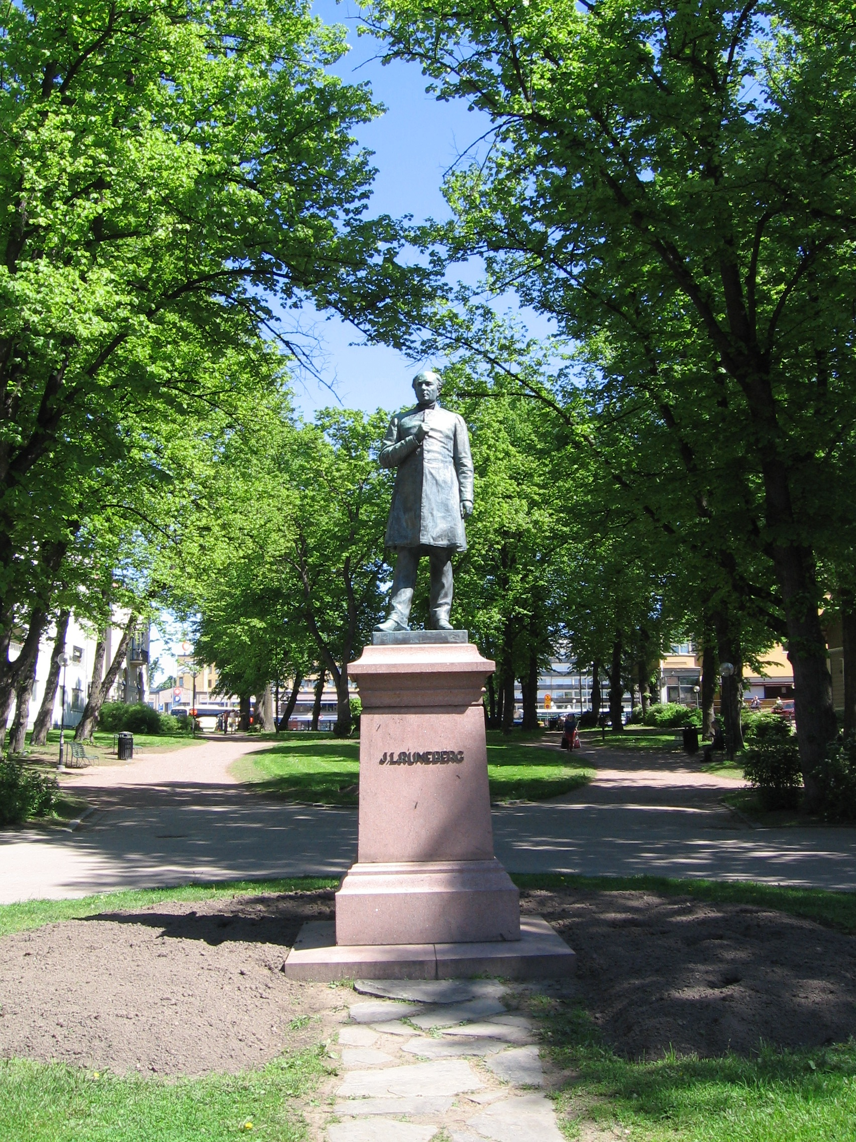 Statue of Johan Ludvig Runeberg in Porvoo, Finland